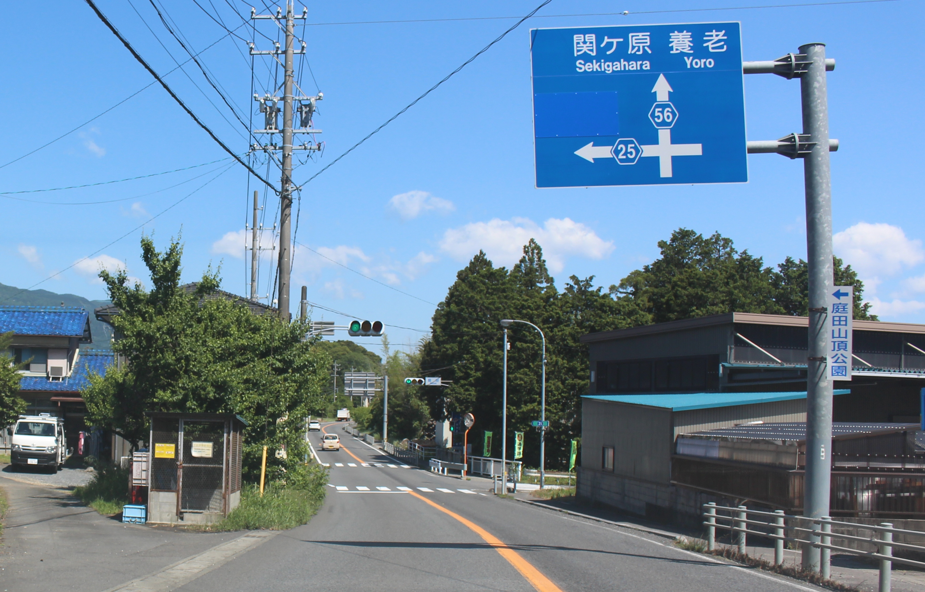 Gifu Prefectural Road Route 56 in Niwada, Nannocho, Kaizu, Gifu prefecture, Japan.